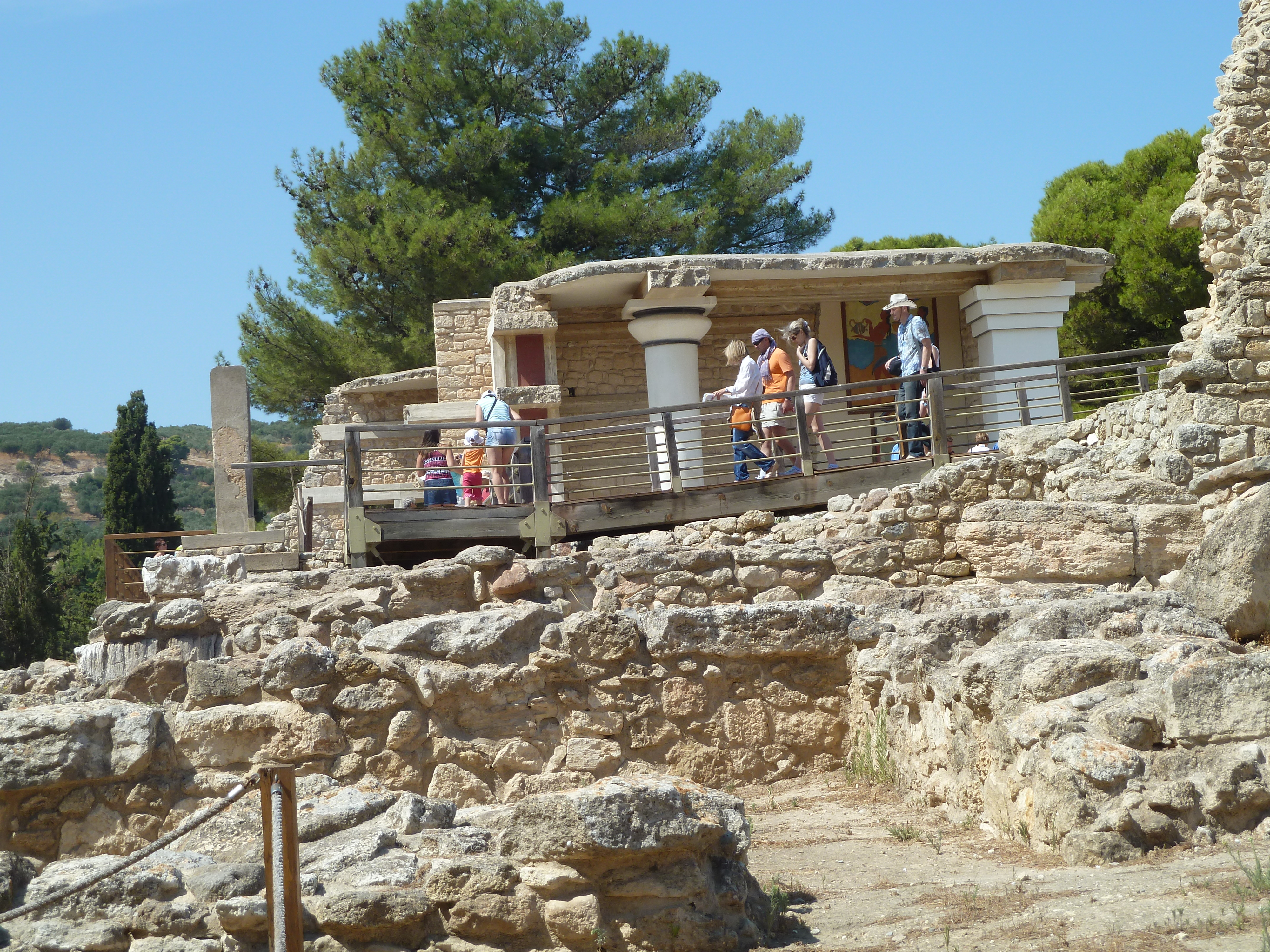 Minoean Pallace, Knossos, Crete, Greece